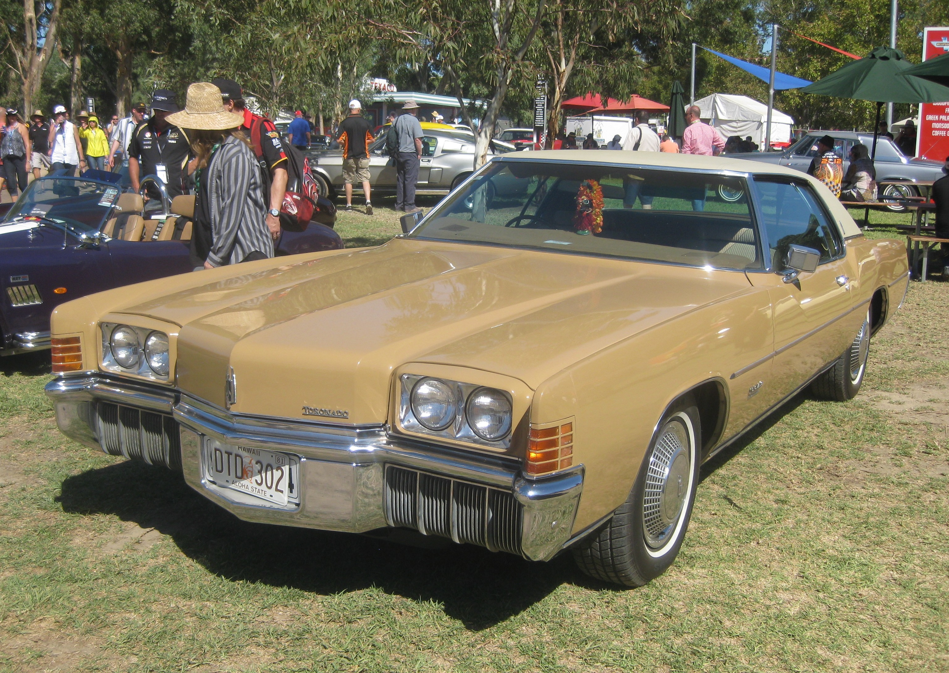 1972 Oldsmobile Tornado